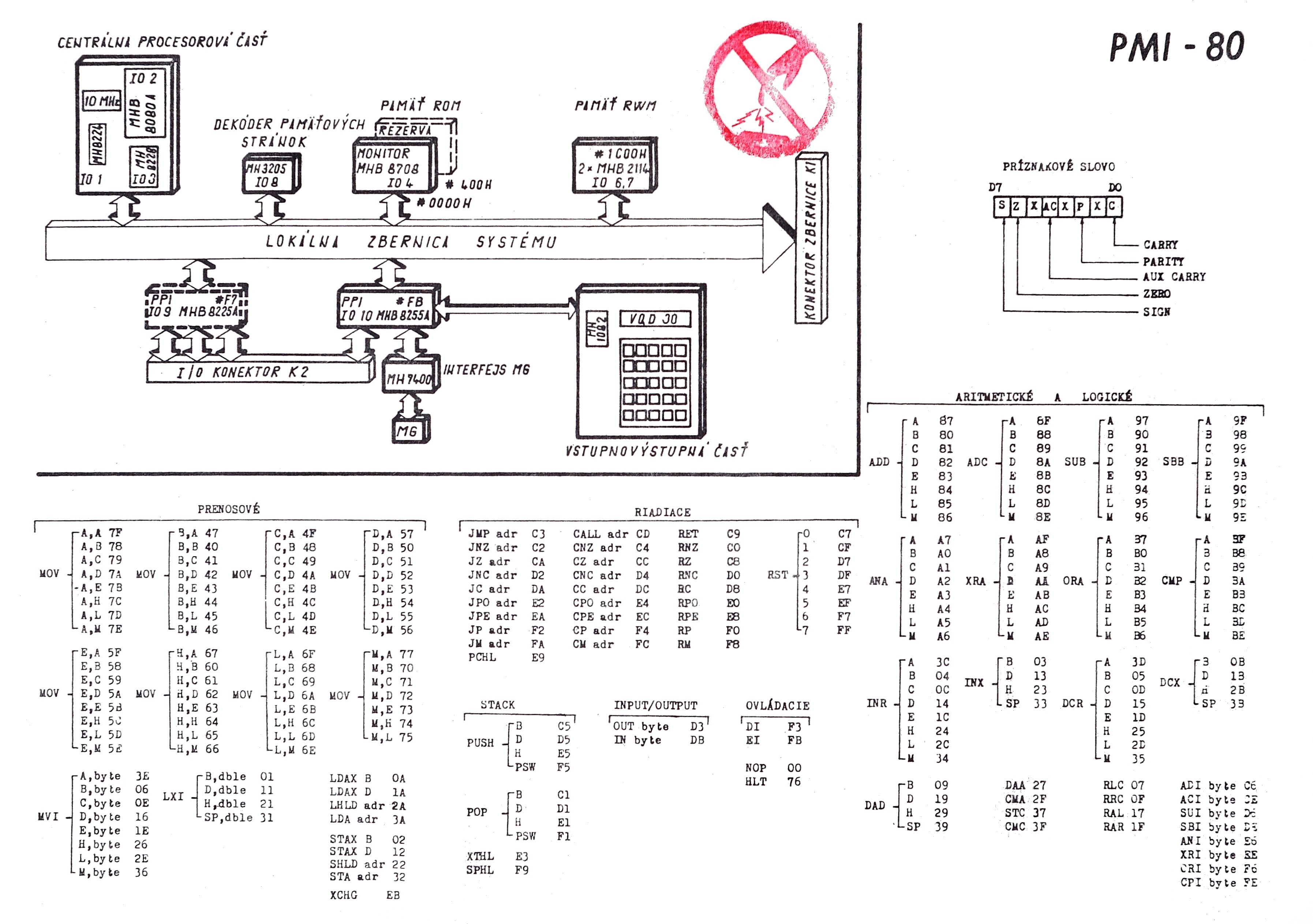 PMI-80, 1982 Czechoslovakia single-board 8080 computer